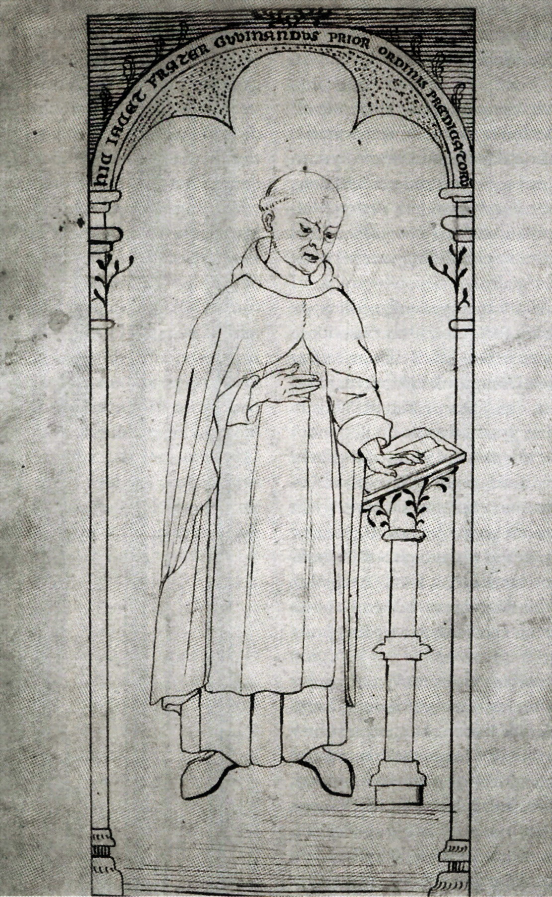 Drawing of the grave stone of Saint Winand, first abbot(?) of the Dominican monastery in Maastricht, the Netherlands. Drawing published in a 17th-century manuscript by Thomas de Heer.